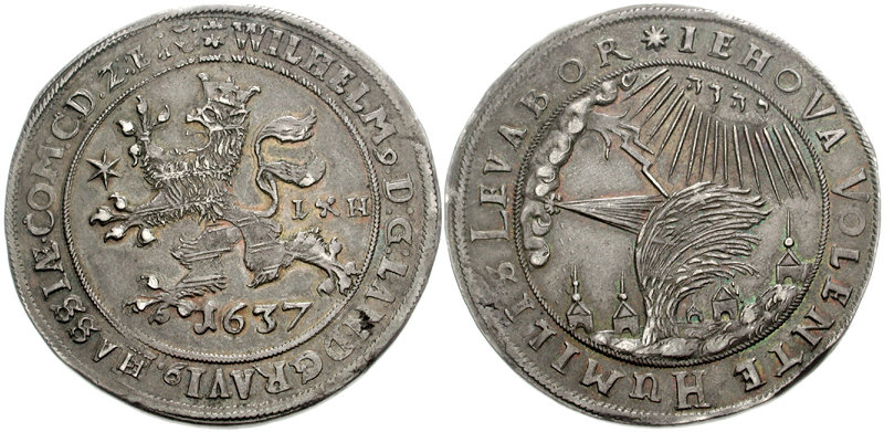 GERMANY, Hessen-Kassel. Wilhelm VI. 1627-1663. AR Taler (43mm, 29.34 g, 12h). Lubert Haussmann, mintmaster. Dated 1637. Crowned, rampant lion left / Willow tree being buffeted by storm and struck by lightning from the clouds, sun above inscribed “Jehovah” in Hebrew, five buildings in background. Schütz 1004; Davenport 6770. EF, toned.